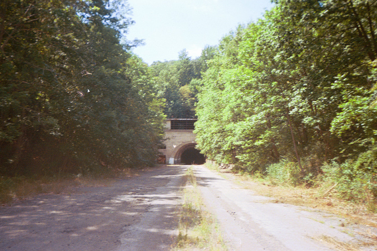 Adding image of Sideling Hill Tunnel. Took myself 08/17/2006